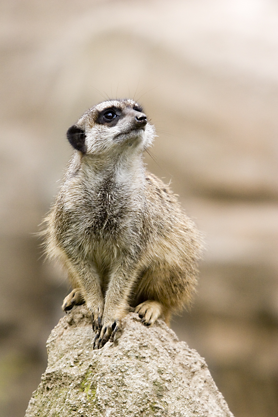 Meerkat (Suricata suricatta), Zoo Leipzig (Saxony, Germany)